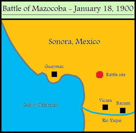 Map showing the location of the Battle of Mazocoba on January 18, 1900 between the Mexican Army and Yaqui native Americans.